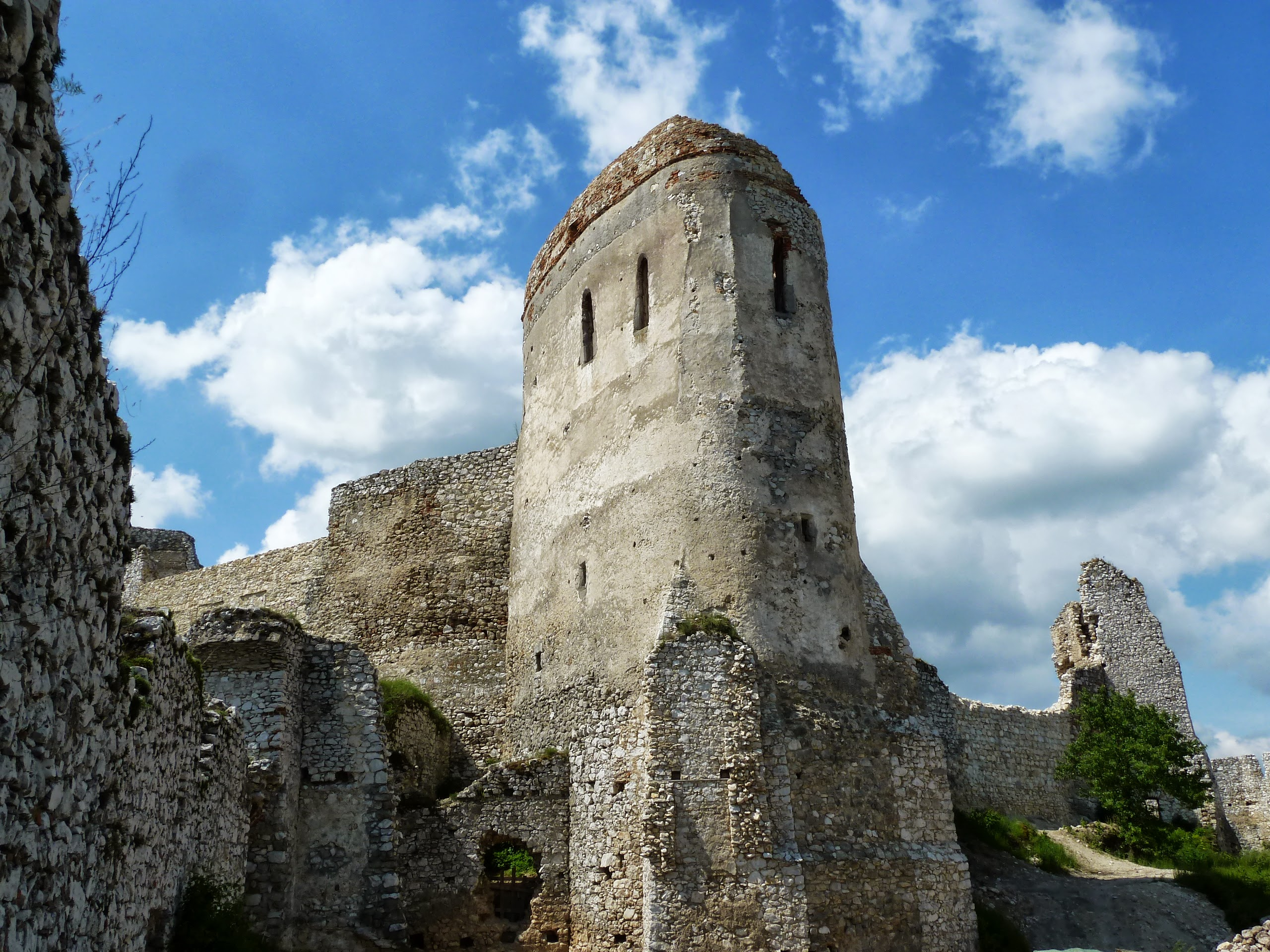 Main tower at Cachtice Castle, Slovakia.